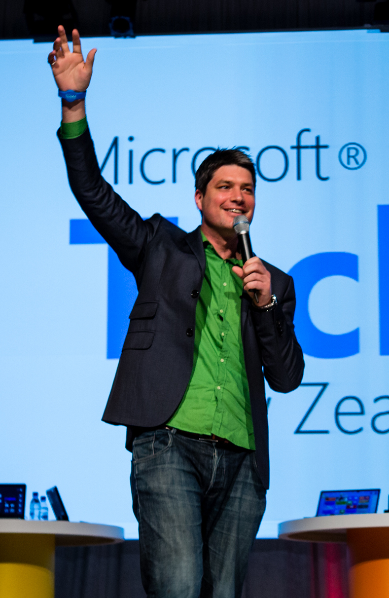 Jesse Mulligan, MC. 2012 Keynote Address, Auckland, New Zealand